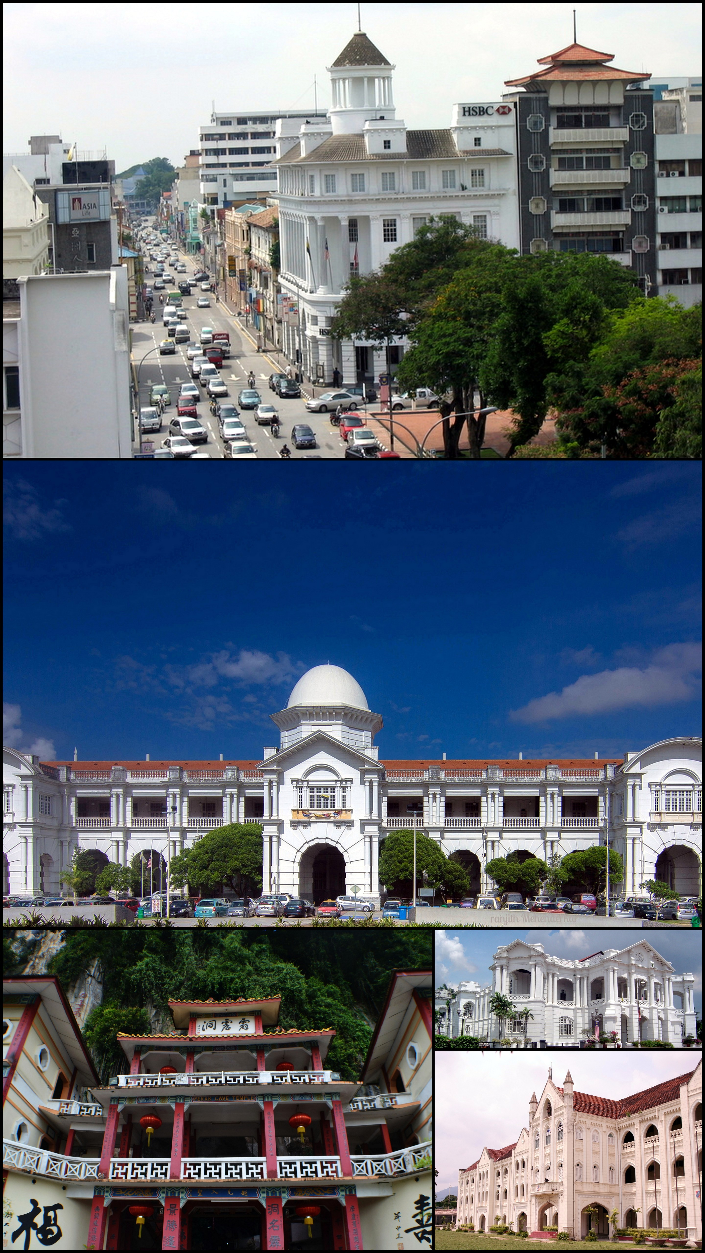 A composite of images taken in the city of Ipoh in Perak, Malaysia.